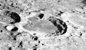 Oblique view of Crocco crater, on the far side of the moon, facing roughly south.